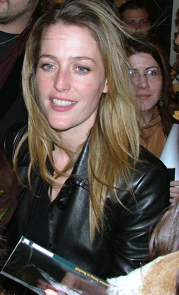 Gillian Anderson (born 9 August 1968) is an American actress, best known for her role as FBI Special Agent Dana Scully in the American TV series and feature film The X-Files. Nowadays she is starring in the BBC Two hit series "The Fall".